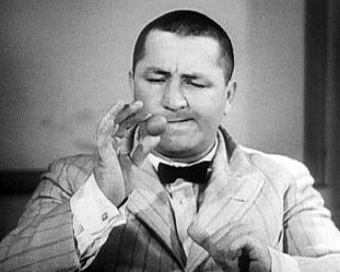 Frame of the actor and comedian Curly Howard from "Disorder in the Court" (1936), in public domain